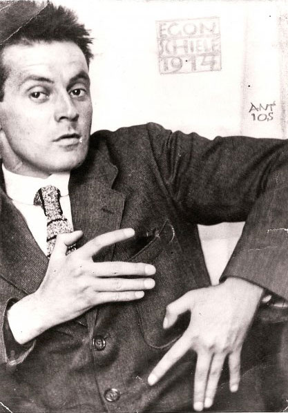 Photographic portrait of Egon Schiele